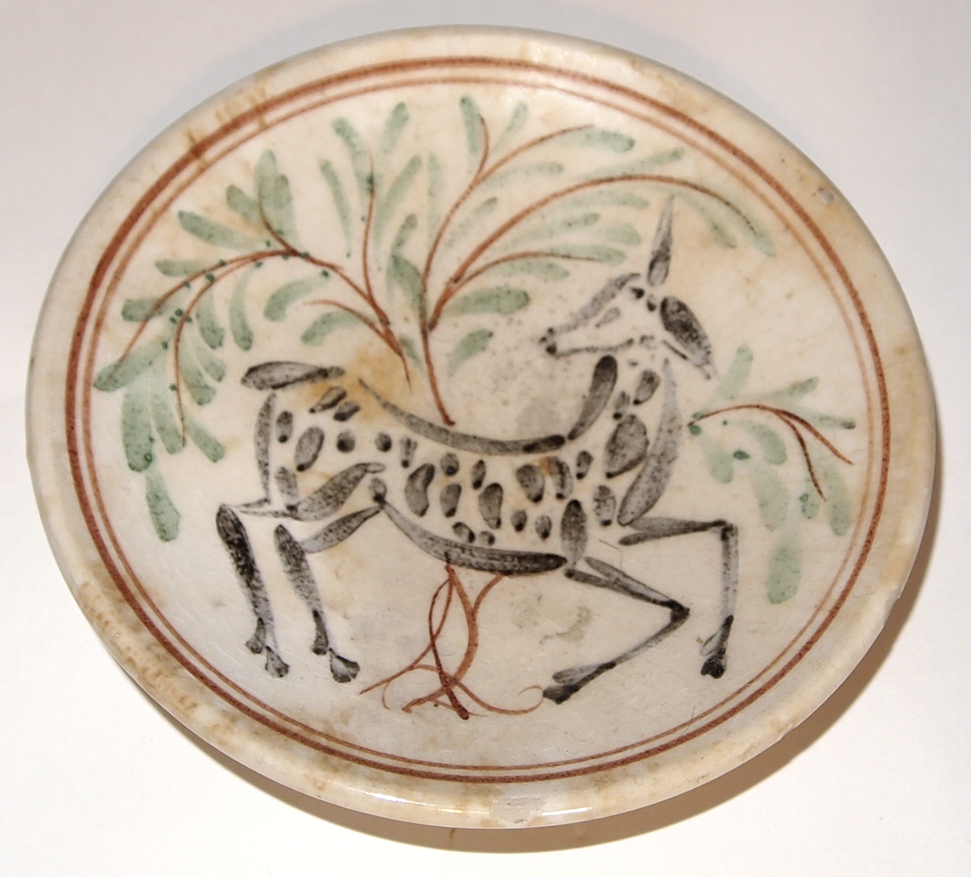 Small bowl thrown and decorated by Glyn Colledge